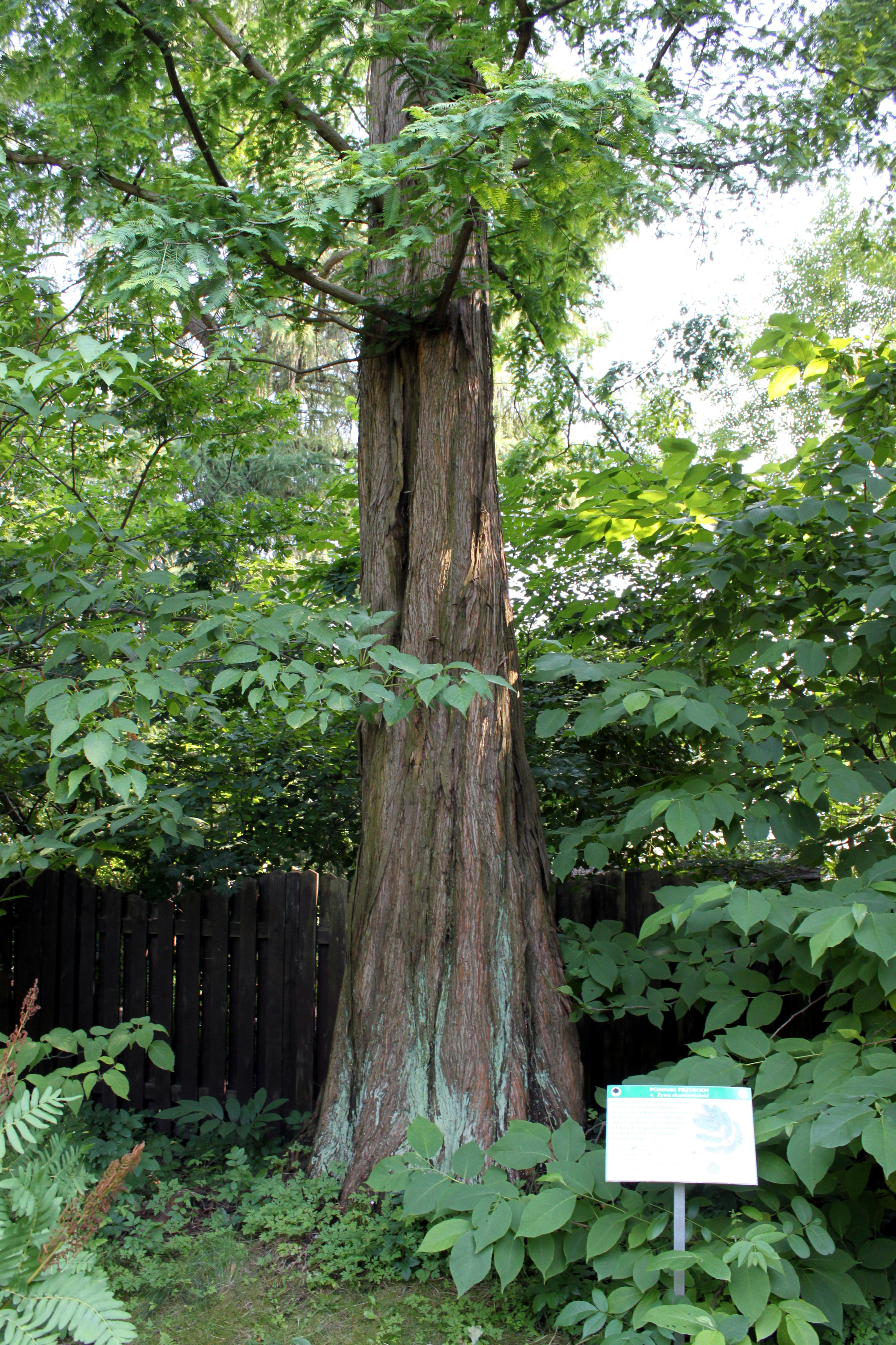 Metasequoia glyptostroboides trunk in Warsaw University Botanical Garden, Poland